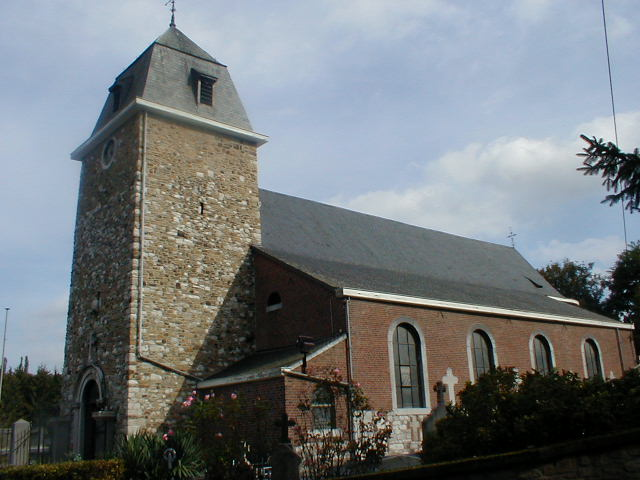 The church of the village of Awirs, Belgium.